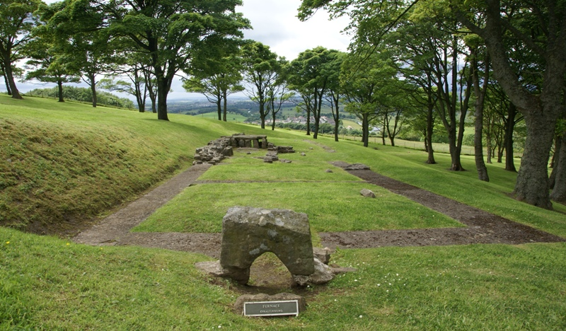 Bar Hill Fort, Twechar, East Dunbartonshire, Scotland - bath house, from east